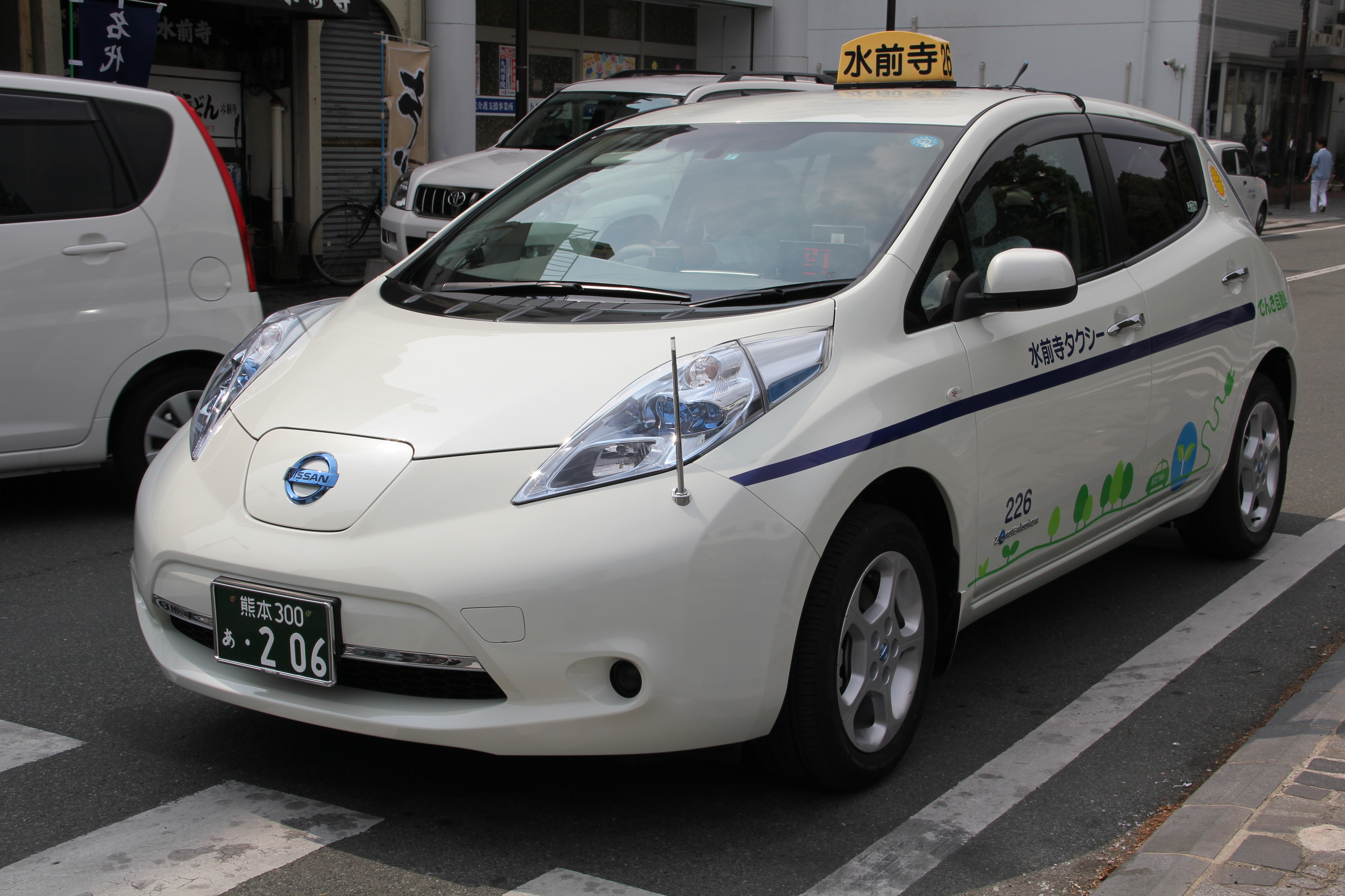 The Nissan Leaf is operating as part of the taxi fleet of Kumamoto Prefecture, Kumamoto City. Introduced in February, six Leafs have been introduced until March 2011.